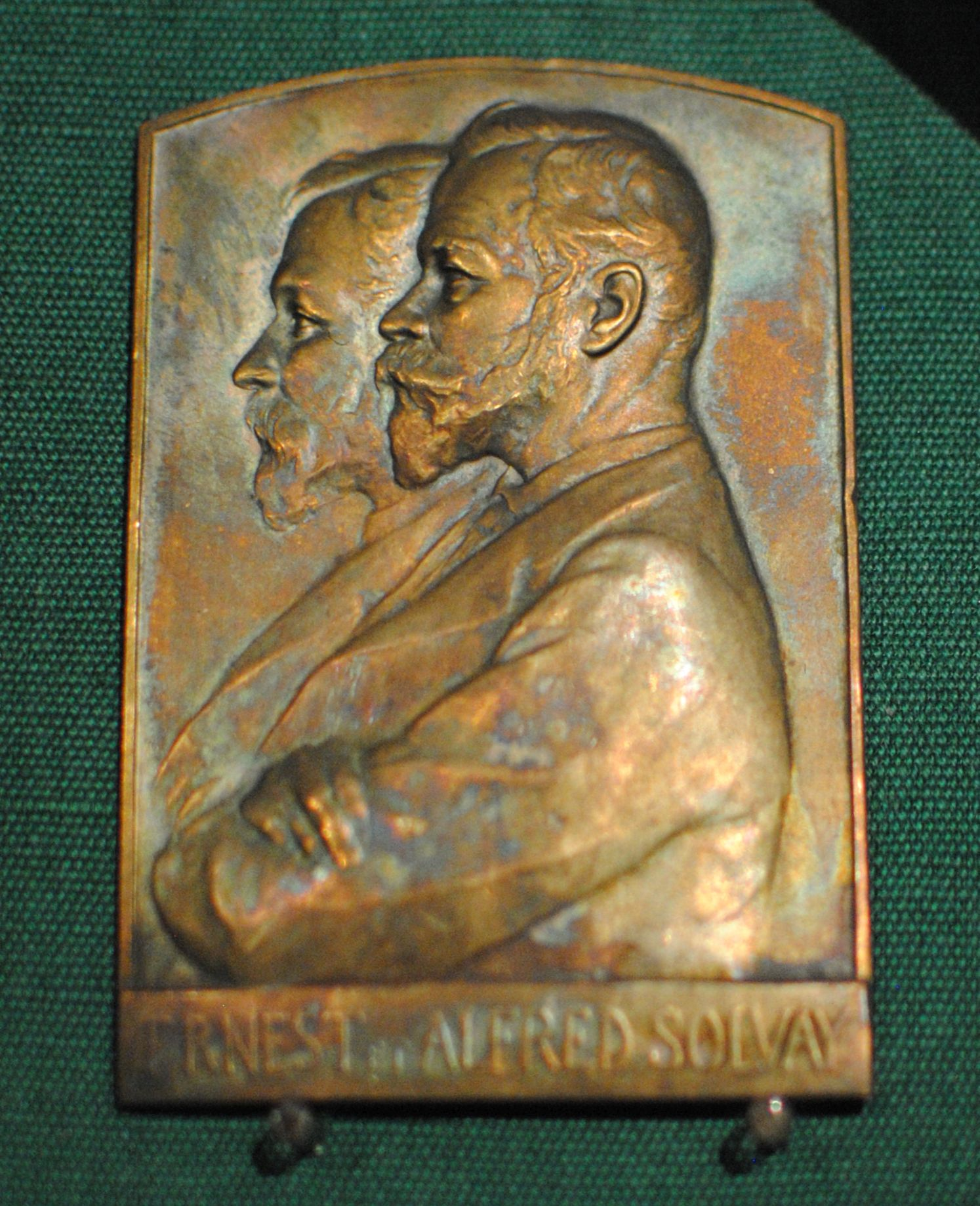 Medal cast in 1913 to commemorate the 50th anniversary of Solvay and Company. Now in Catalyst Science Discovery Centre, Widnes, England. Text (in French) reads "Ernest et Alfred Solvay".